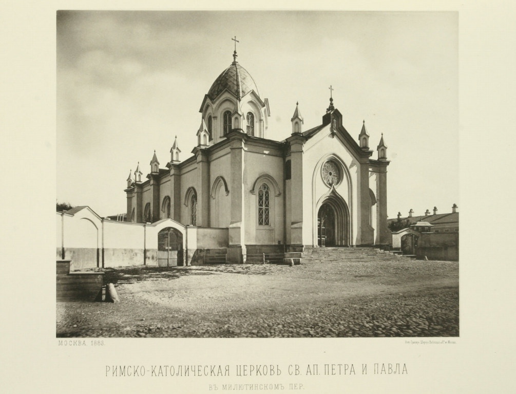 Catholic church of St. Peter and Paul, Moscow.